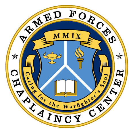 Scanned from the brochure for the dedication and ribbon cutting ceremony, this is the official sea for the Armed Forces Chaplaincy Center, which includes the US Naval Chaplaincy School and Center, the US Air Force Chaplain Corps College, and the US Army Chaplain Center and School